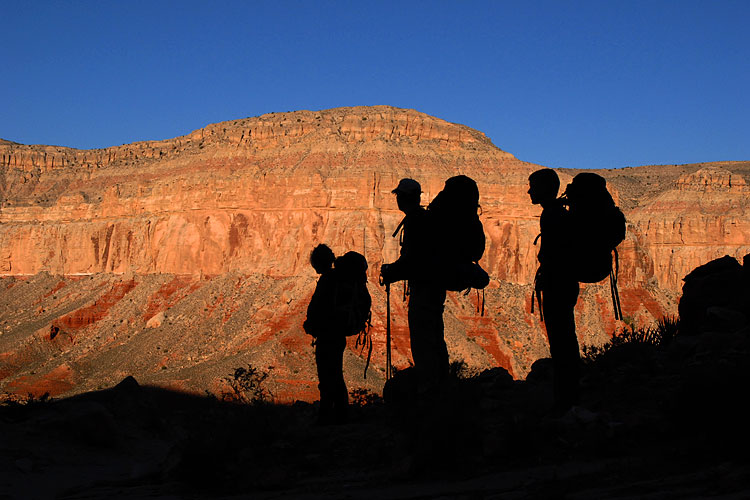 Havasupai Trail, Arizona in April 2008